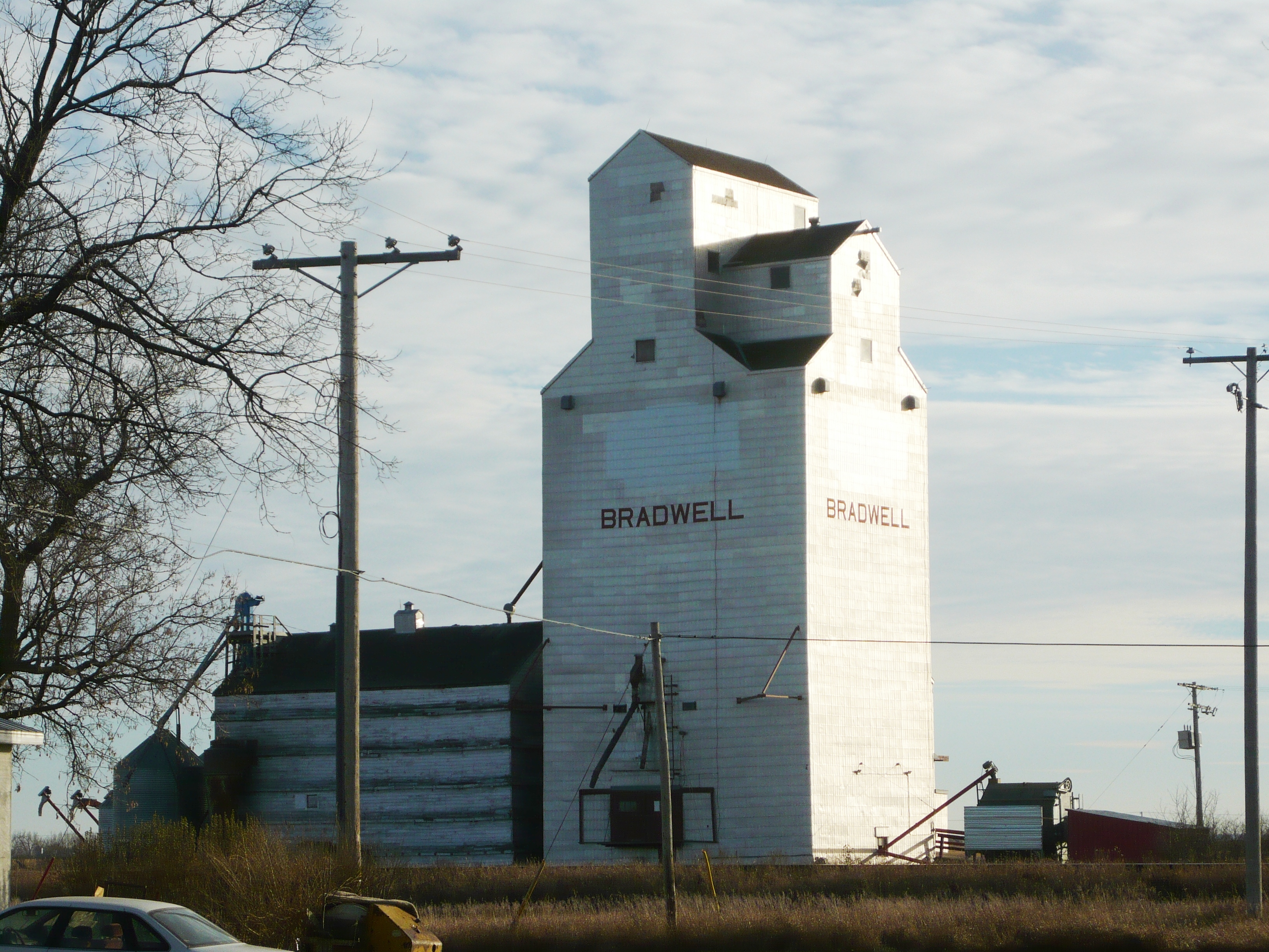 Grain elevator at Bradwell, Saskatchewan, Canada. Taken from intersection of Bradwell Street and First Avenue, looking south.